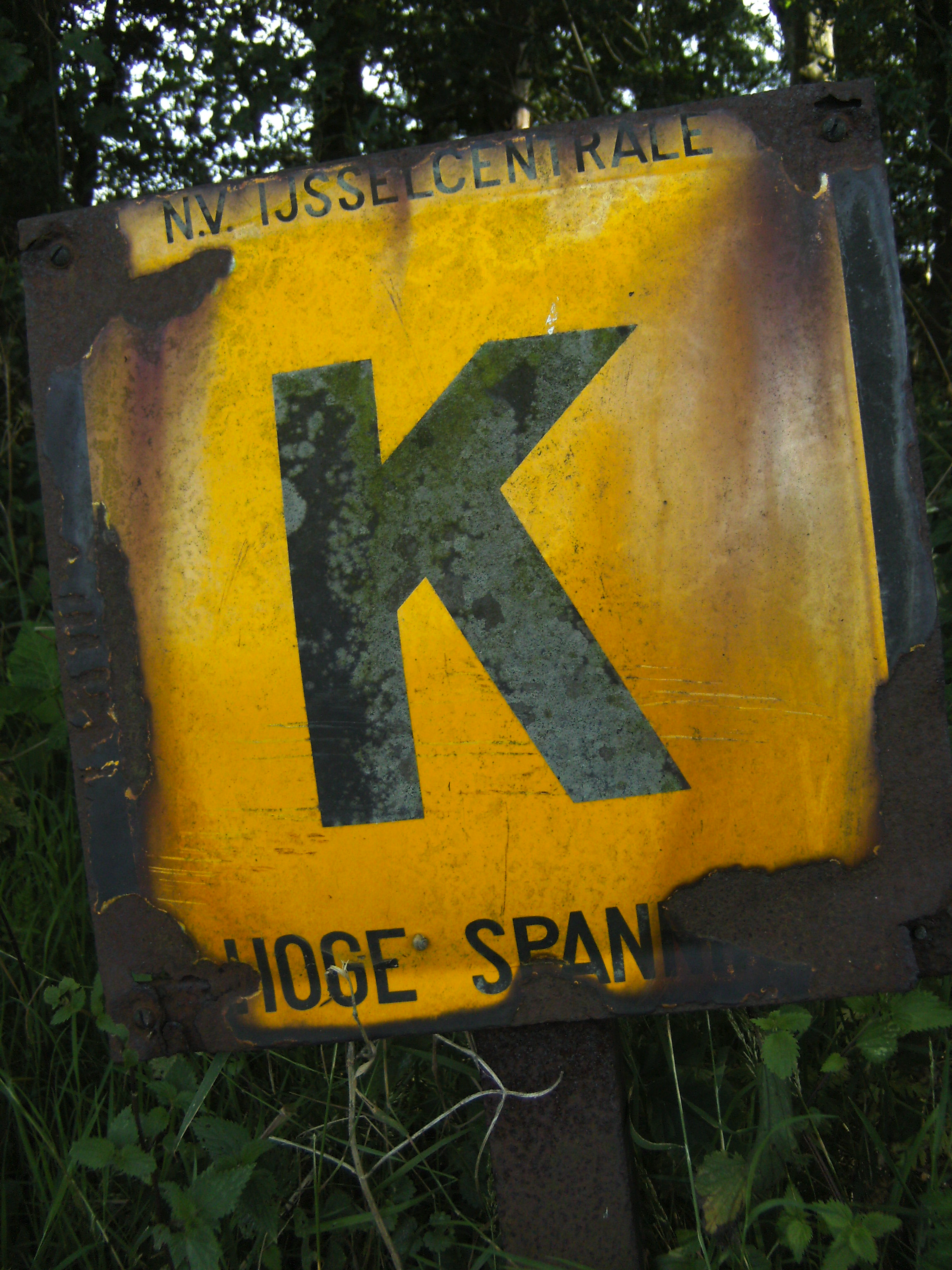 "High-voltage cable underneath", old sign at Soestwetering, Overijssel, Netherlands